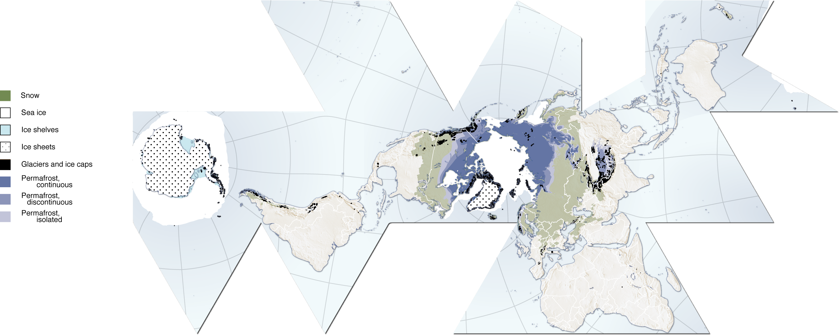 Author, Hugo Ahlenius, UNEP/GRID-Arendal. Full graphic, including sources, referencing etc are available here: Image donated by author, no restrictions on use. Notes: Snow cover extent for Northern Hemisphere is represented by the 1966â€“2005 February average, for Southern Hemisphere by the 1987â€“2003 August average. Sea ice extent for Northern Hemisphere is represented by the 1979â€“2003 March average, for Southern Hemisphere by the 1979â€“2002 September average. Permafrost data for mountain areas and for the Southern Hemisphere are not represented in this map, neither are river and lake ice. Data sources: Armstrong, R.L. and Brodzik, M.J. (2005). Northern Hemisphere EASE-Grid weekly snow cover and sea ice extent version 3. (Digital media). National Snow and Ice Data Center, Boulder Armstrong, R.L., Brodzik, M.J., Knowles, K. and Savoie, M. (2005). Global monthly EASE-Grid snow water equivalent climatology. (Digital media). National Snow and Ice Data Center, Boulder Brown, J., Ferrians Jr., O.J., Heginbottom, J.A. and Melnikov, E.S. (1998 revised February 2001). Circum-Arctic map of permafrost and ground-ice conditions. (Digital media). National Snow and Ice Data Center/World Data Center for Glaciology, Boulder NGA (2000). Vector Map Level 0. National Geospatial-Intelligence Agency. data/v0soa.tar.gz [Accessed 1 September 2006] Stroeve, J. and Meier, W. (1999, updated 2005). Sea Ice Trends and Climatologies from SMMR and SSM/I. National Snow and Ice Data Center. ancillary/monthly_means.html [Accessed 20 April 2007] .